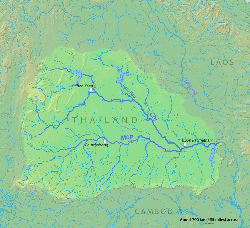 Map of the Mun and Chi Rivers in Thailand, tributary to the Mekong.